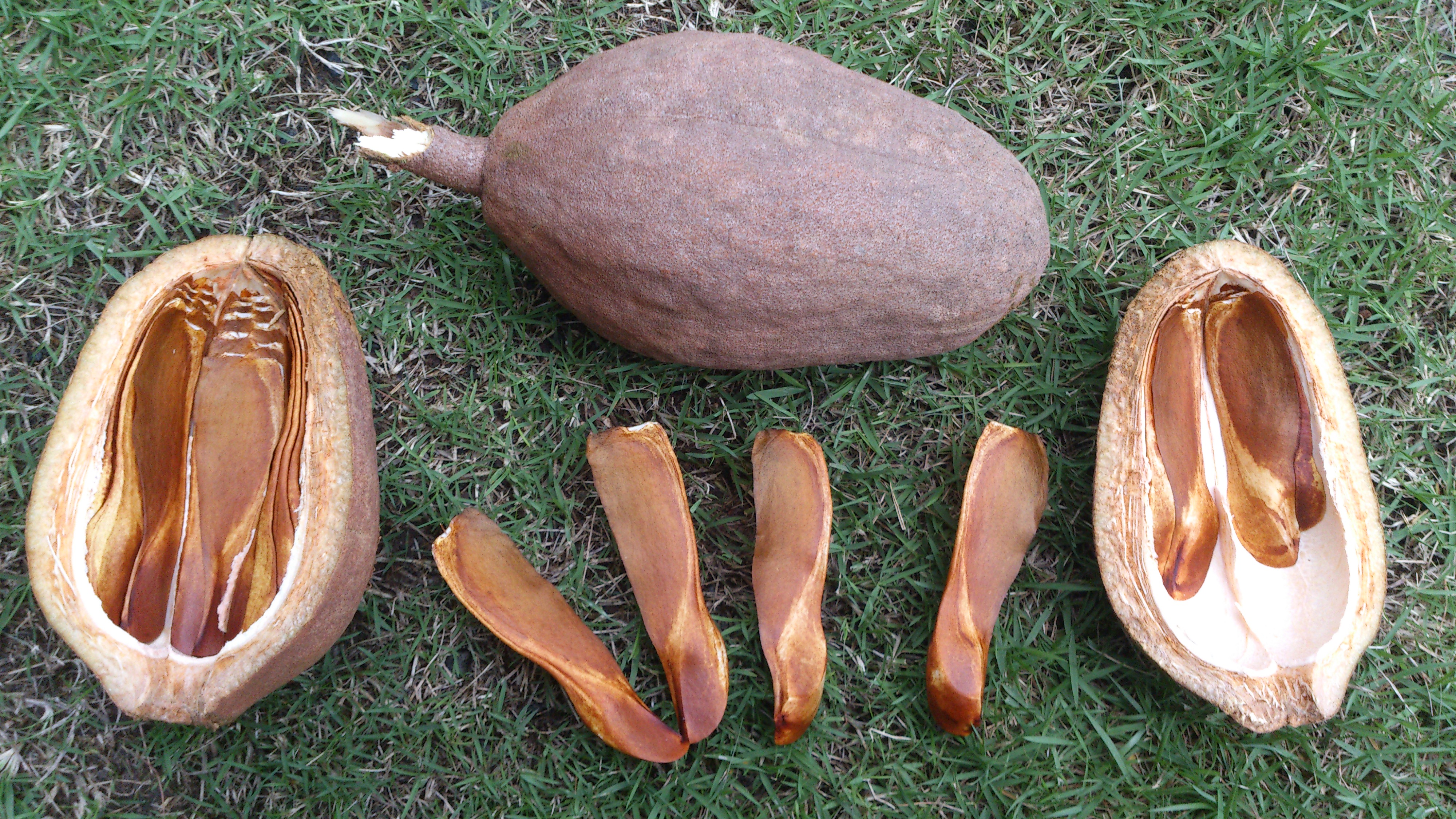 Arrangement of four single seeds, two capsule/fruit halves still containing seeds, and one capsule/fruit still intact of a Toona calantas also known as the Philippine mahogany tree.